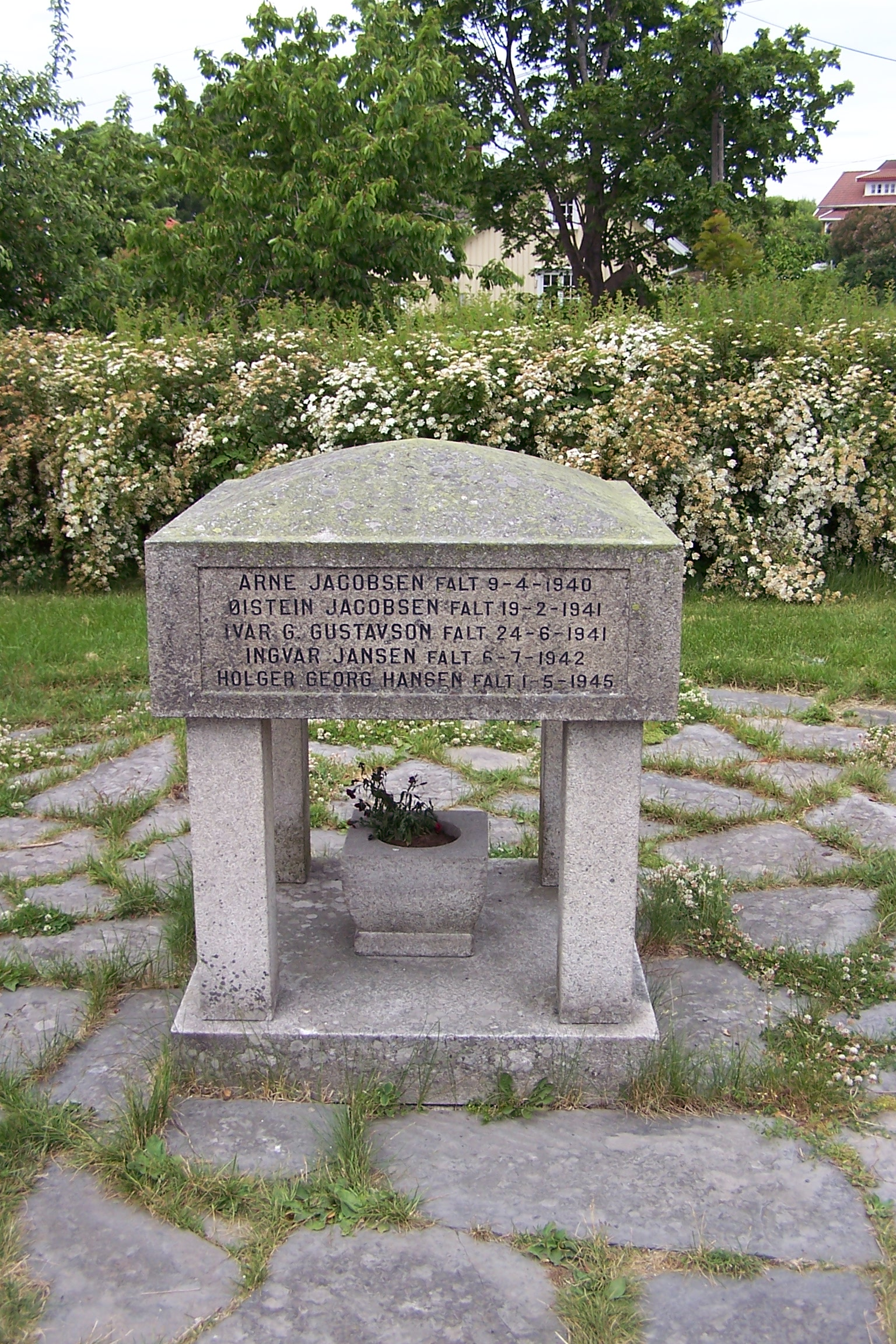 Son, Norway: Minnestøtte, WWII memorial. The names of the five men from Son who fell in the war; the first fell on the day of the German attack, and the last a week before the German capitulation.